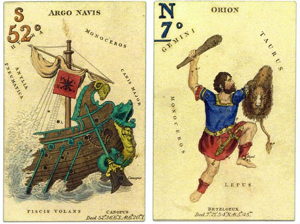 Published by Charles Hodges c1828, likely thought to have been designed by Stopforth & Son.